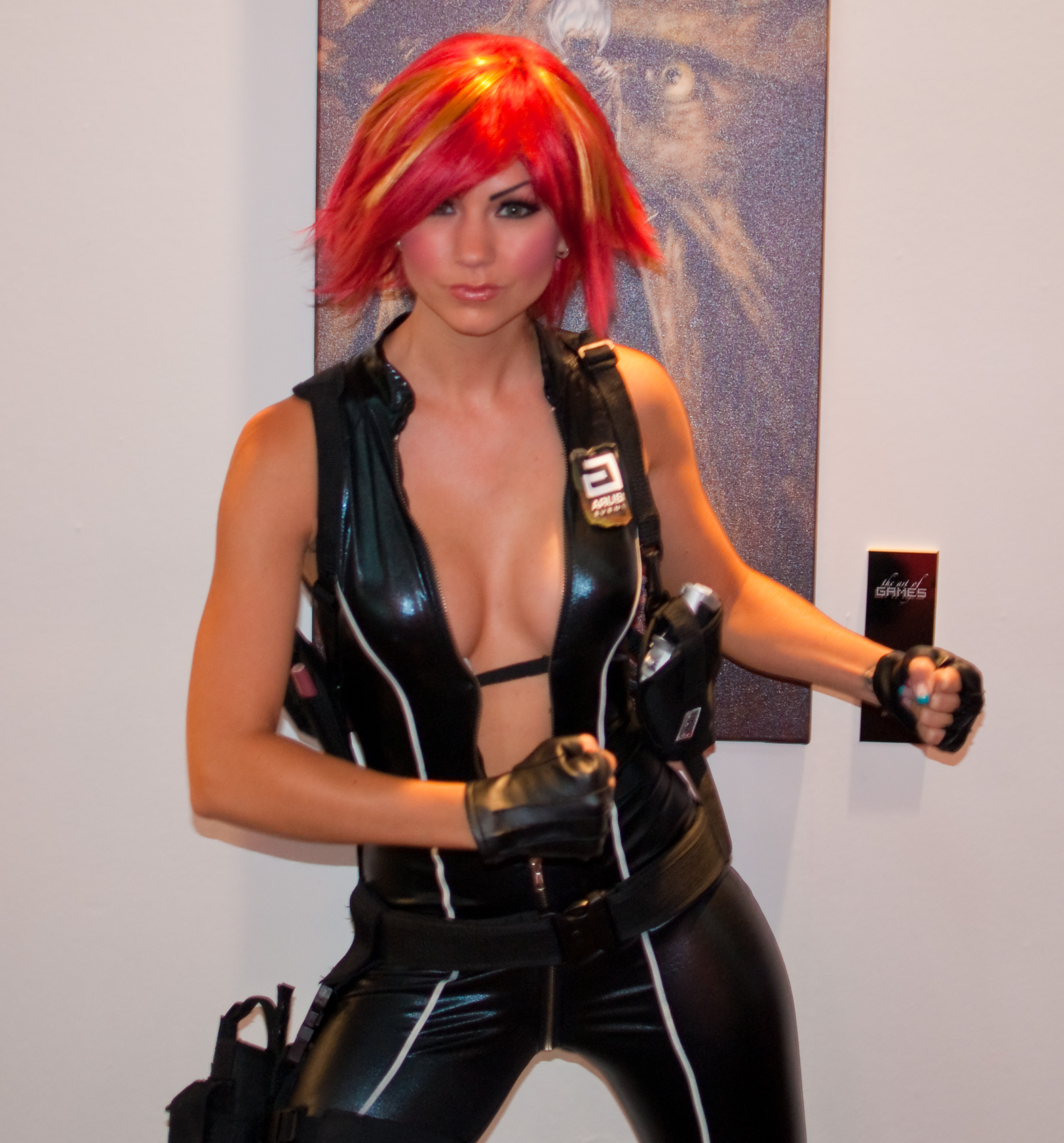 Girl at Gamescom 2010